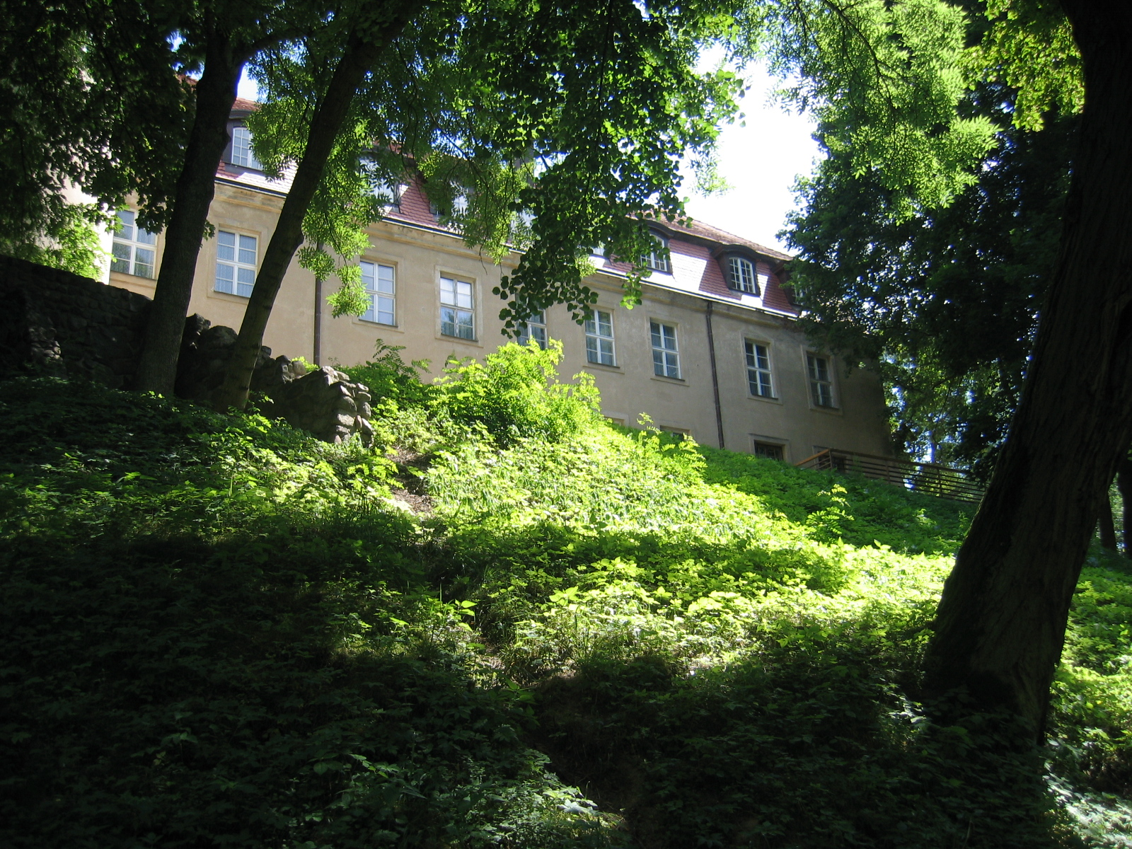 The Wedel castle in Tuczno.